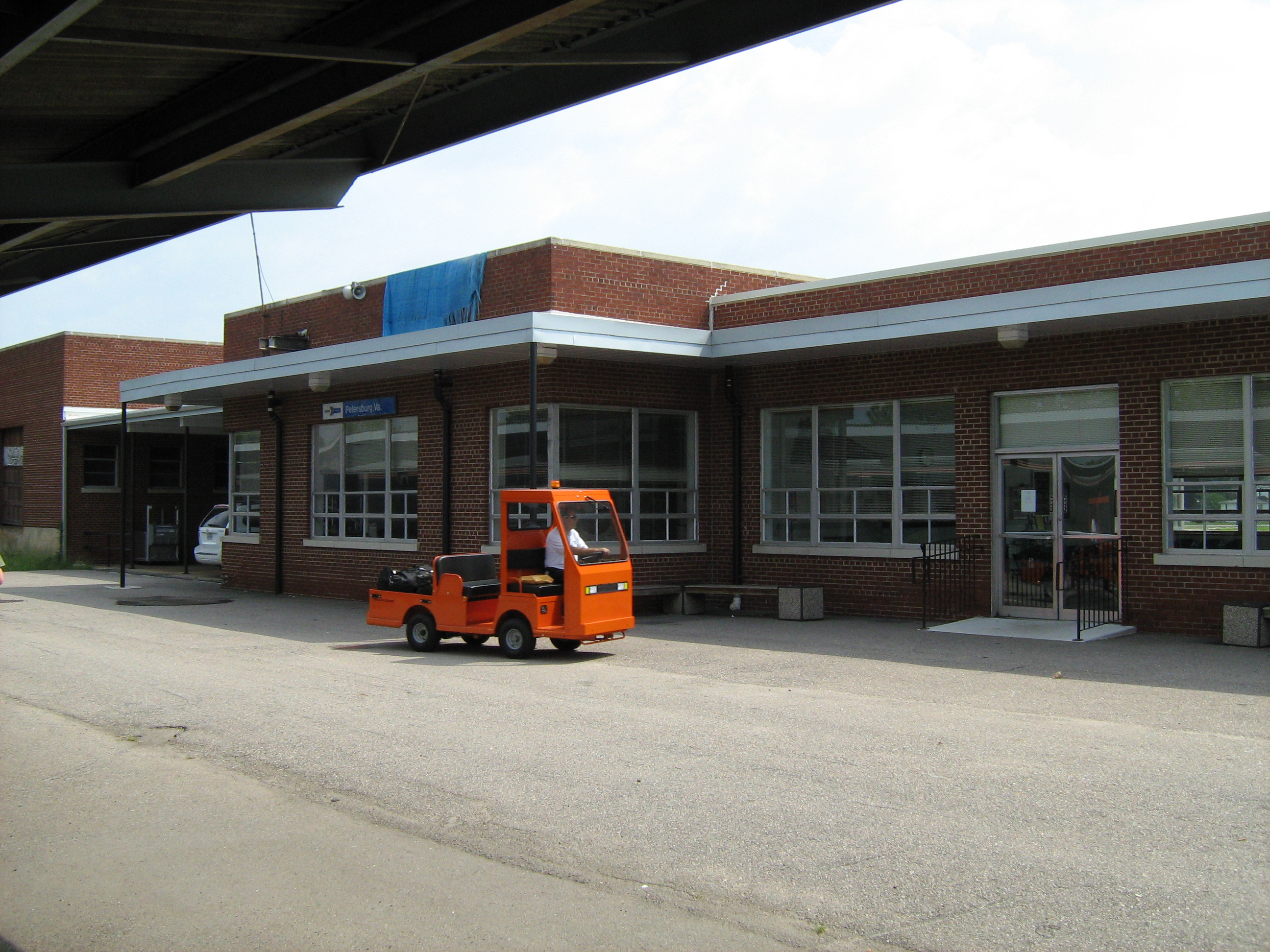 The back of Petersburg (Amtrak station) (west side) in Virginia viewed from under the canopy over the platform.